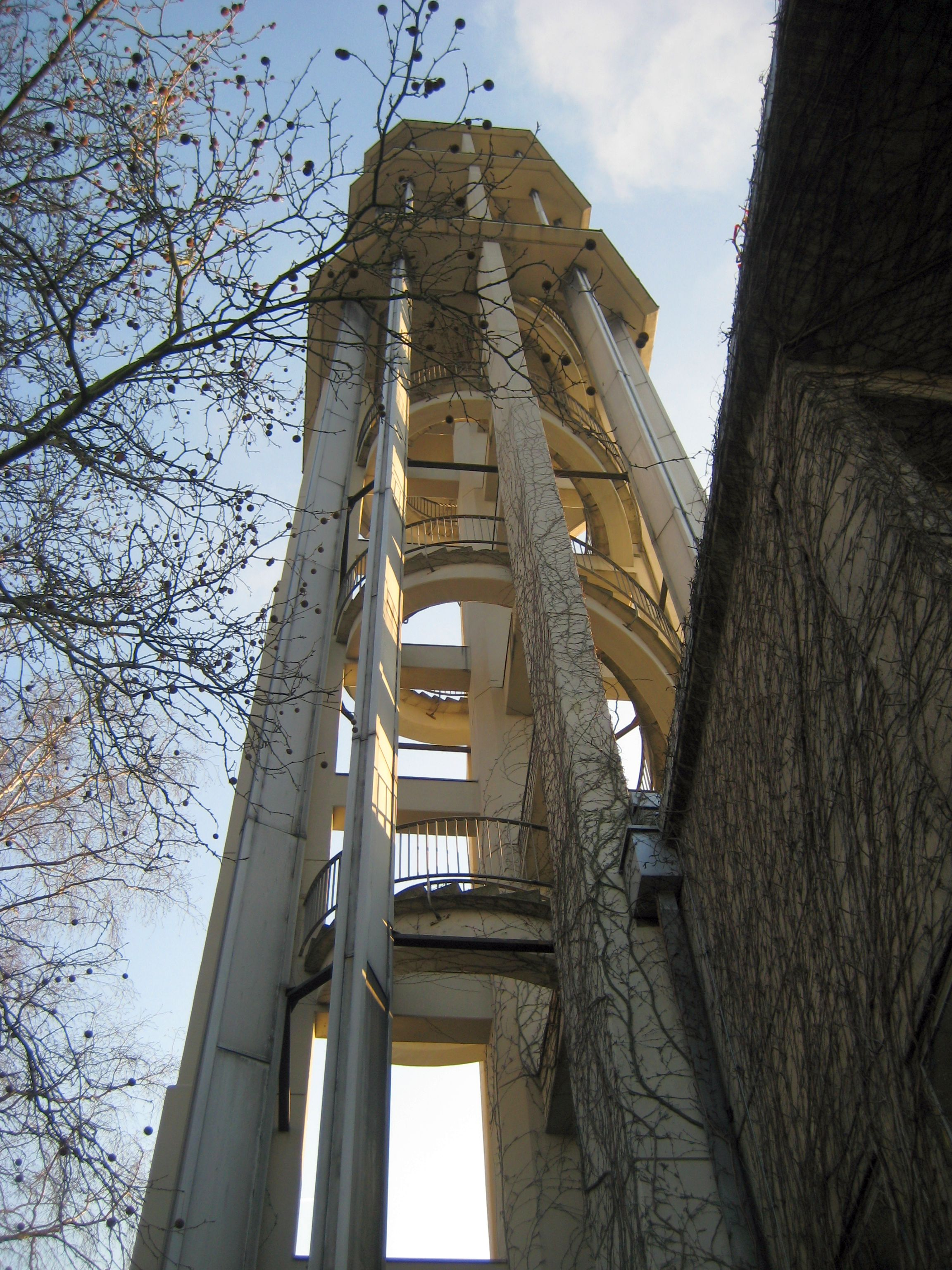 belltower with spiral staircase of Emperoer Friedrich Memorial Church (Kaiser-Friedrich-Gedächtniskirche) in Hansaviertel in Berlin, built in 1957; the design lead to the mocking name “gimlet of souls” („Seelenbohrer“)